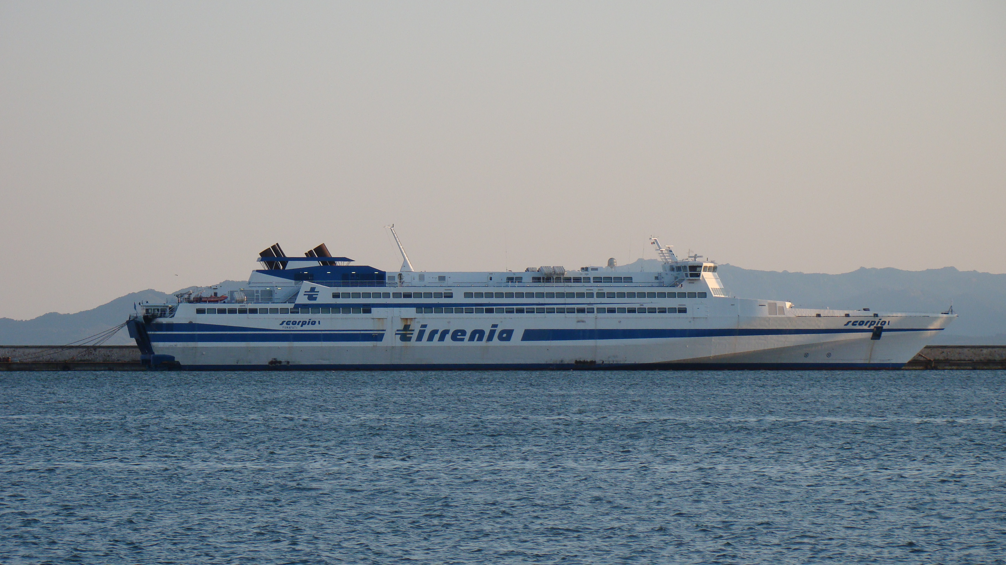 Tirrenia Scorpio HSC in disarmament at Cagliari's harbor (August 2011).